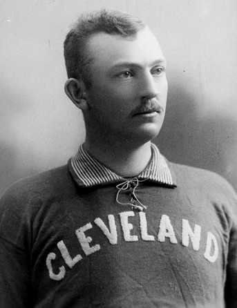 Professional baseball player Cy Young